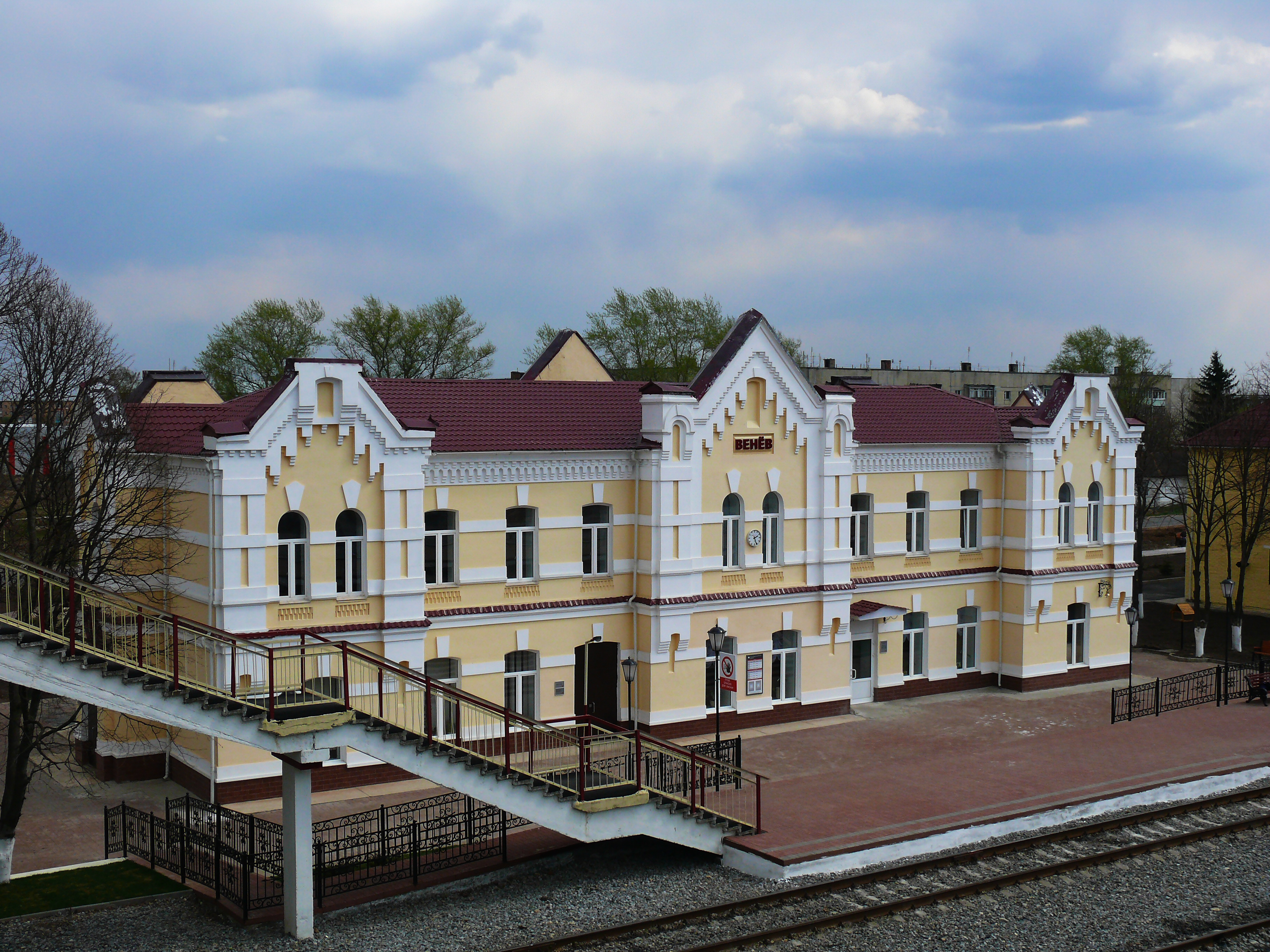 Venev City, Railway Station